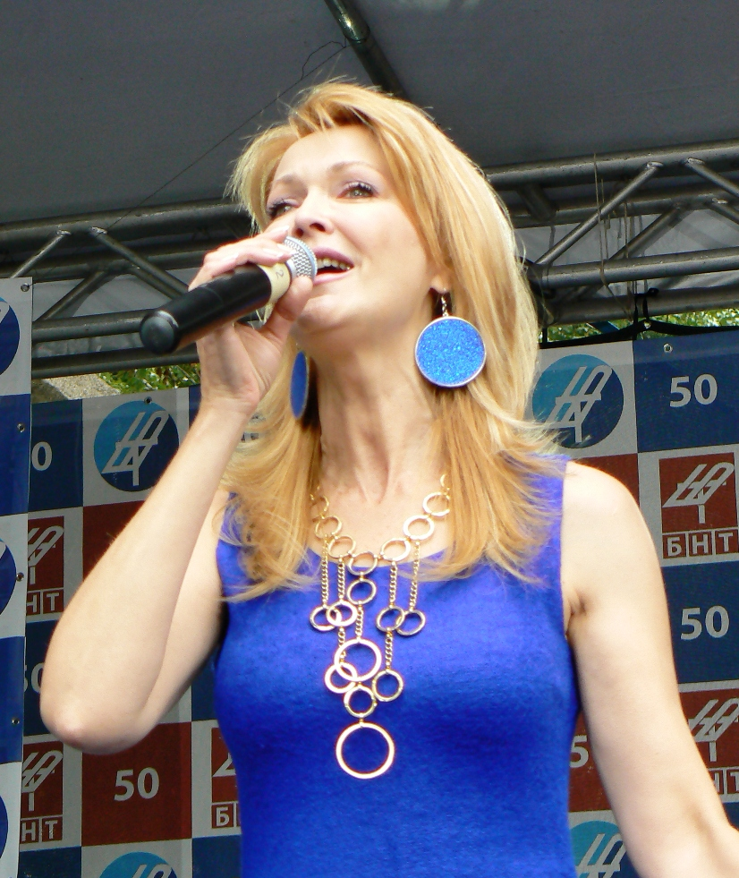 Bulgarian singer Rositsa Kirilova